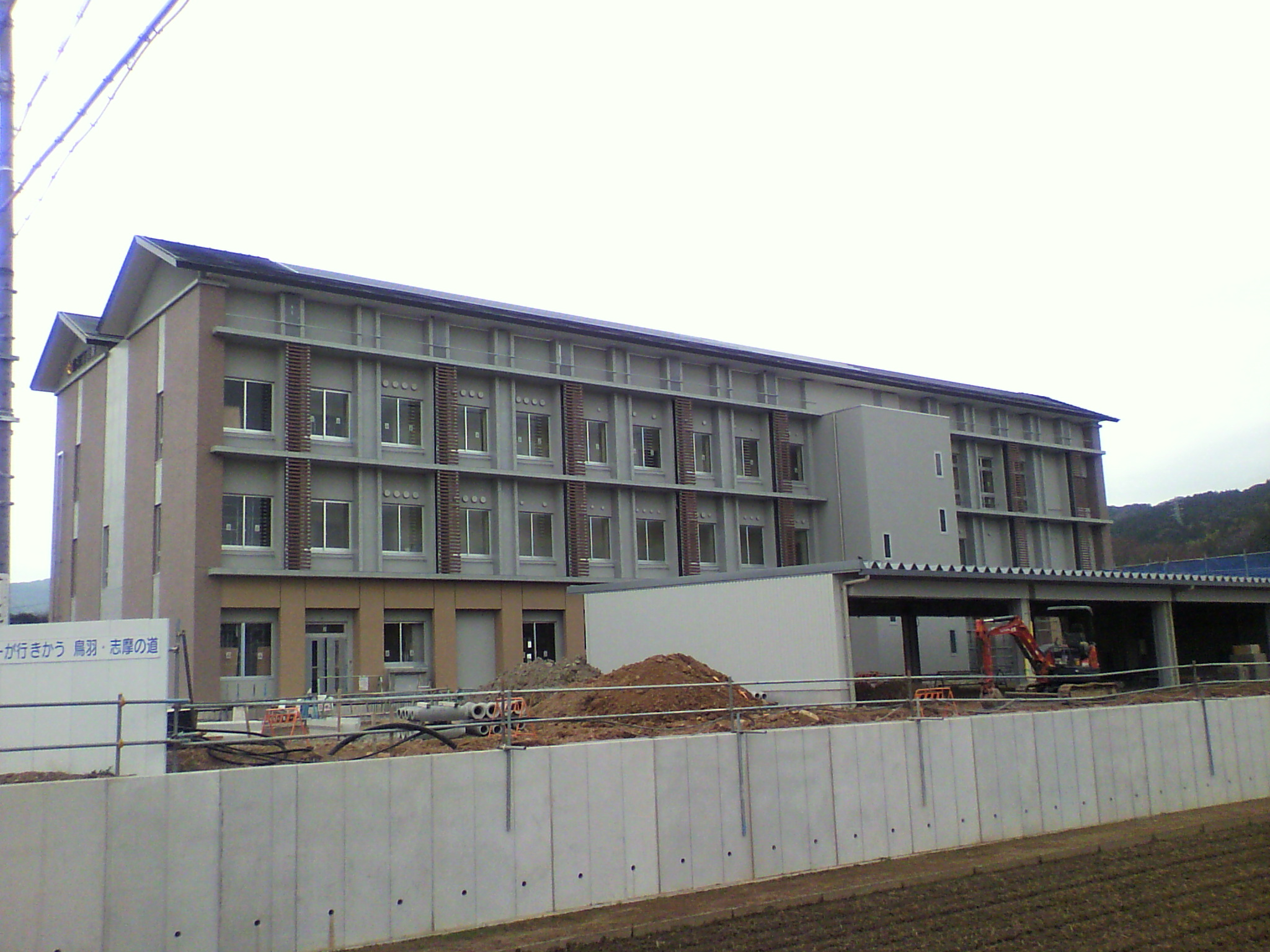 This is a police station which was under construction.